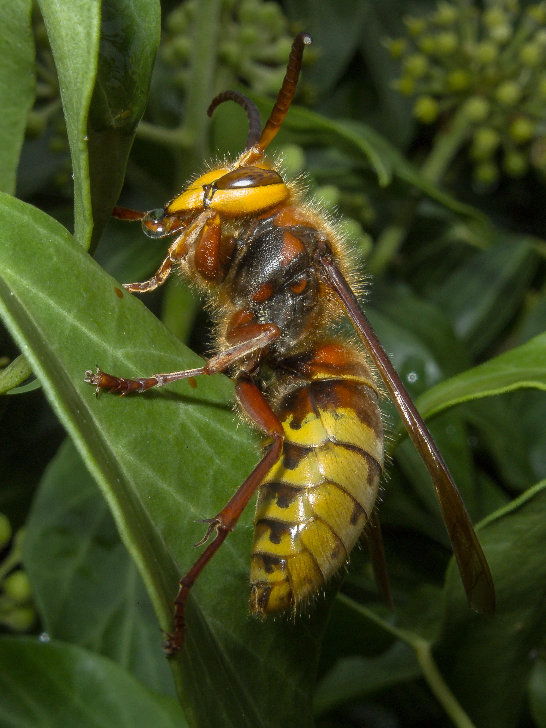 Vespa crabro vexator (British subspecies of the European hornet), on ivy, Rushall Canal, Walsall, UK (SP037980)